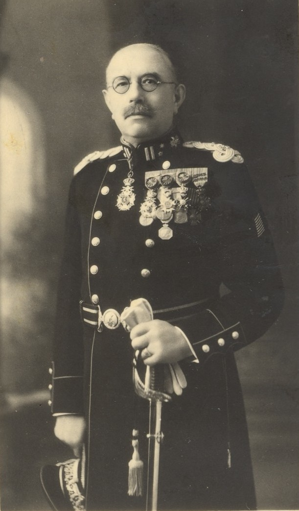 'In Memoriam' card from general Deprez